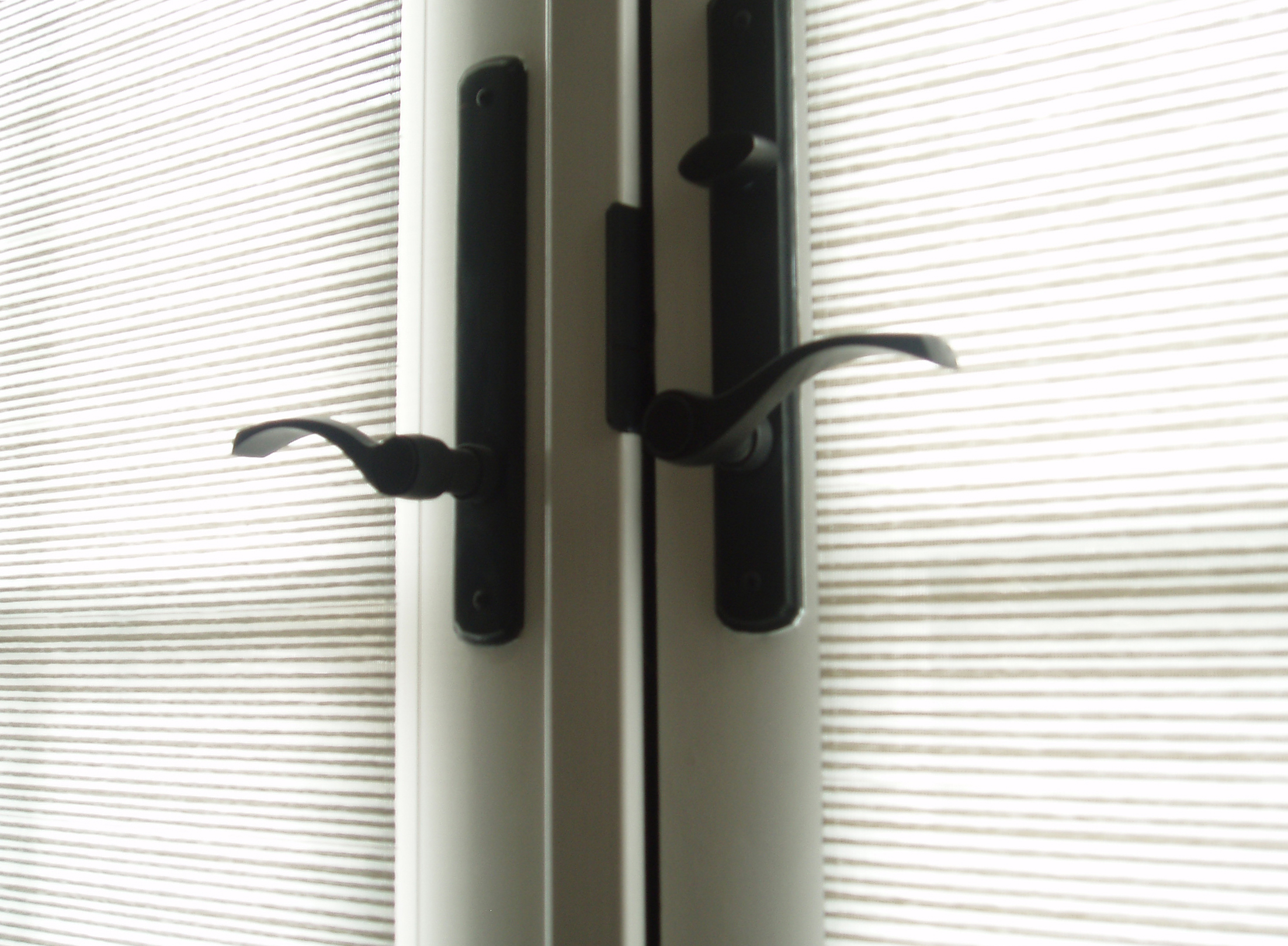 Lever-style door handle. Many doors use twist handles. Window locks use lever handles.